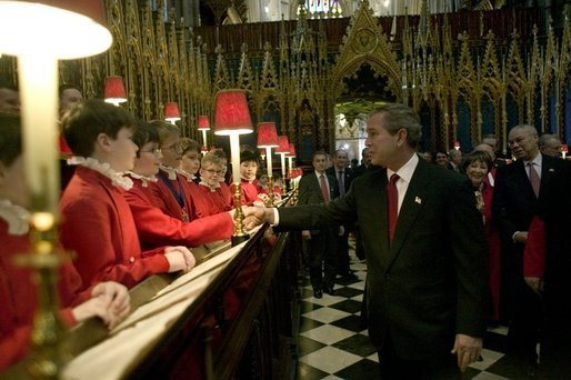 President George W. Bush greets Westminster Abbey Choir